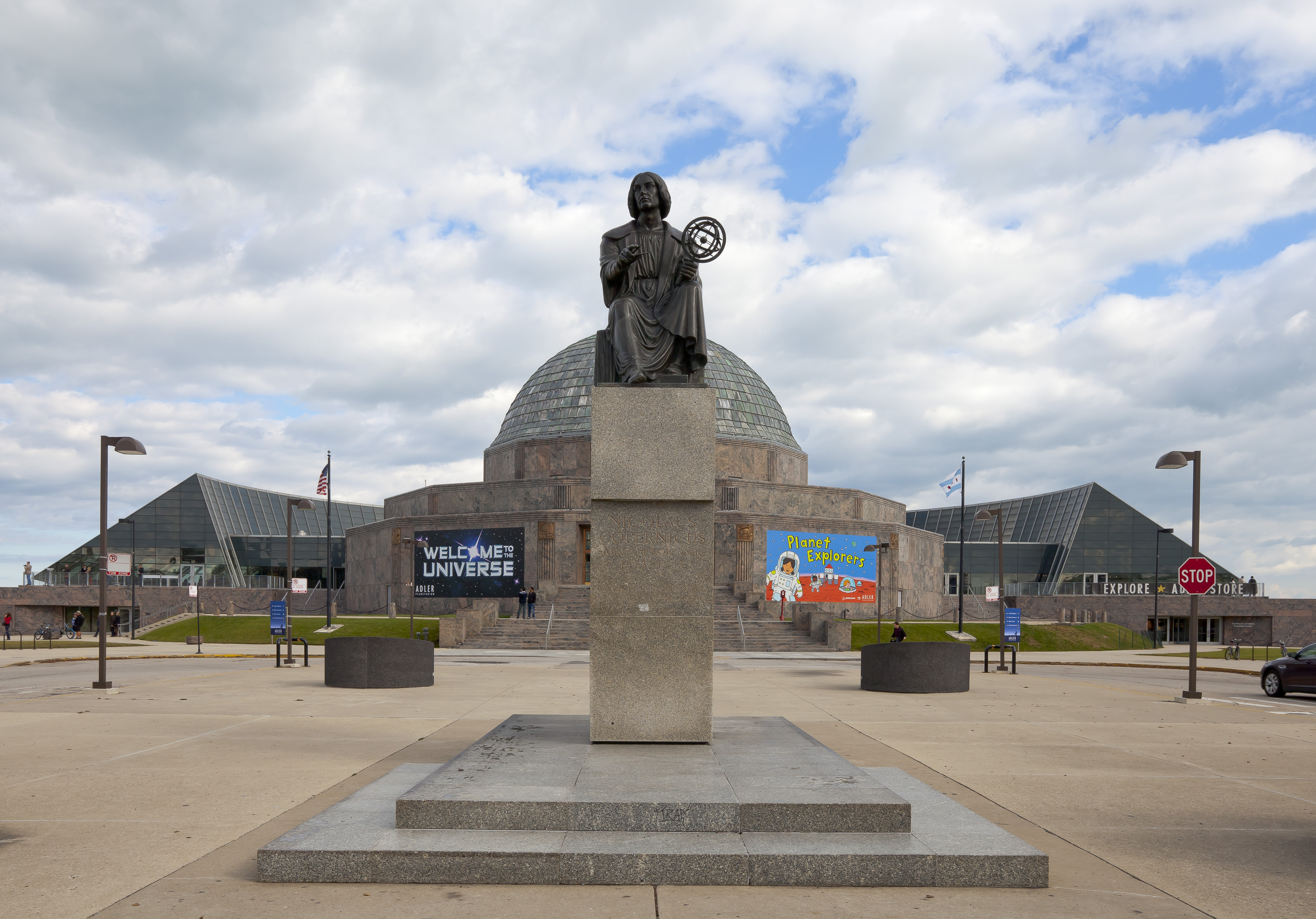 Nicolaus Copernicus Statue in front of the Adler Planetarium, Chicago, Illinois, USA